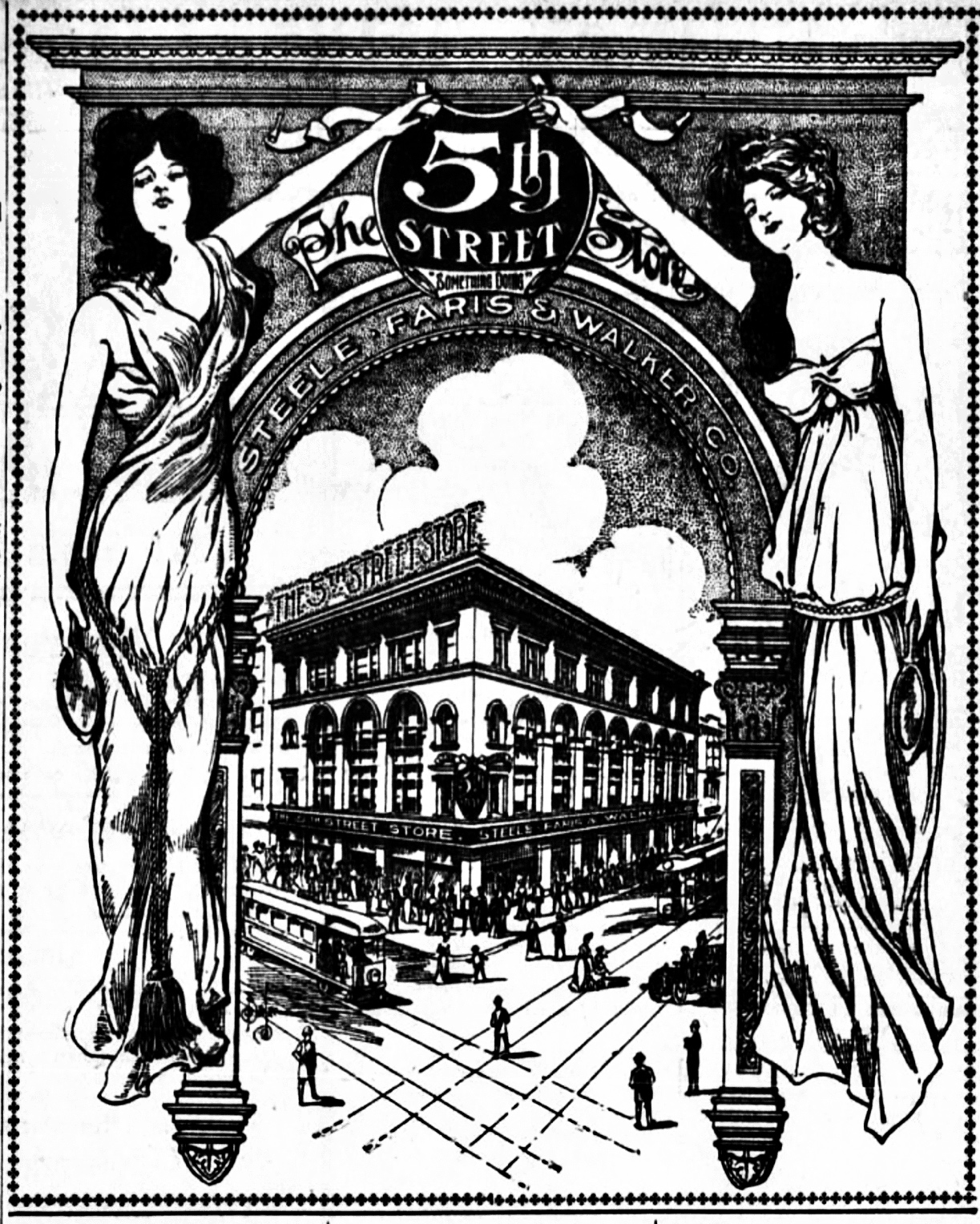 Article about opening of SteeleFarisWalker Los AngeLes 1905